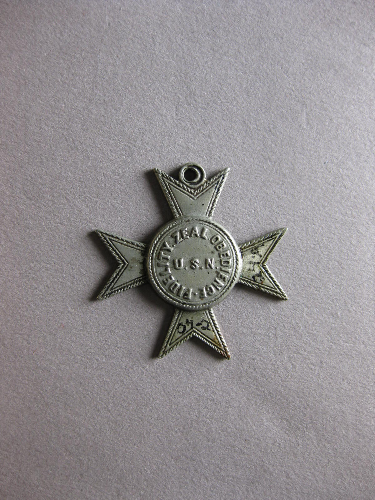 Accession: 07-224-A Award. Medal, Good Conduct, USN Type I. 1.18" H X 1.21" W Nickel The USN Good Conduct Medal is the third oldest continuously awarded medal in the United States. The Type I medal was first authorized on April 26th 1869 and was produced by E. V. Haughwout Company of New York.. The medal was issued with a ribbon of red , white and blue material with no suspension pin. The recipient's name was engraved on the reverse. The medal is in the design of a maltese cross. Additional information can be found at: Collection of Curator Branch, Naval History and Heritage Command.